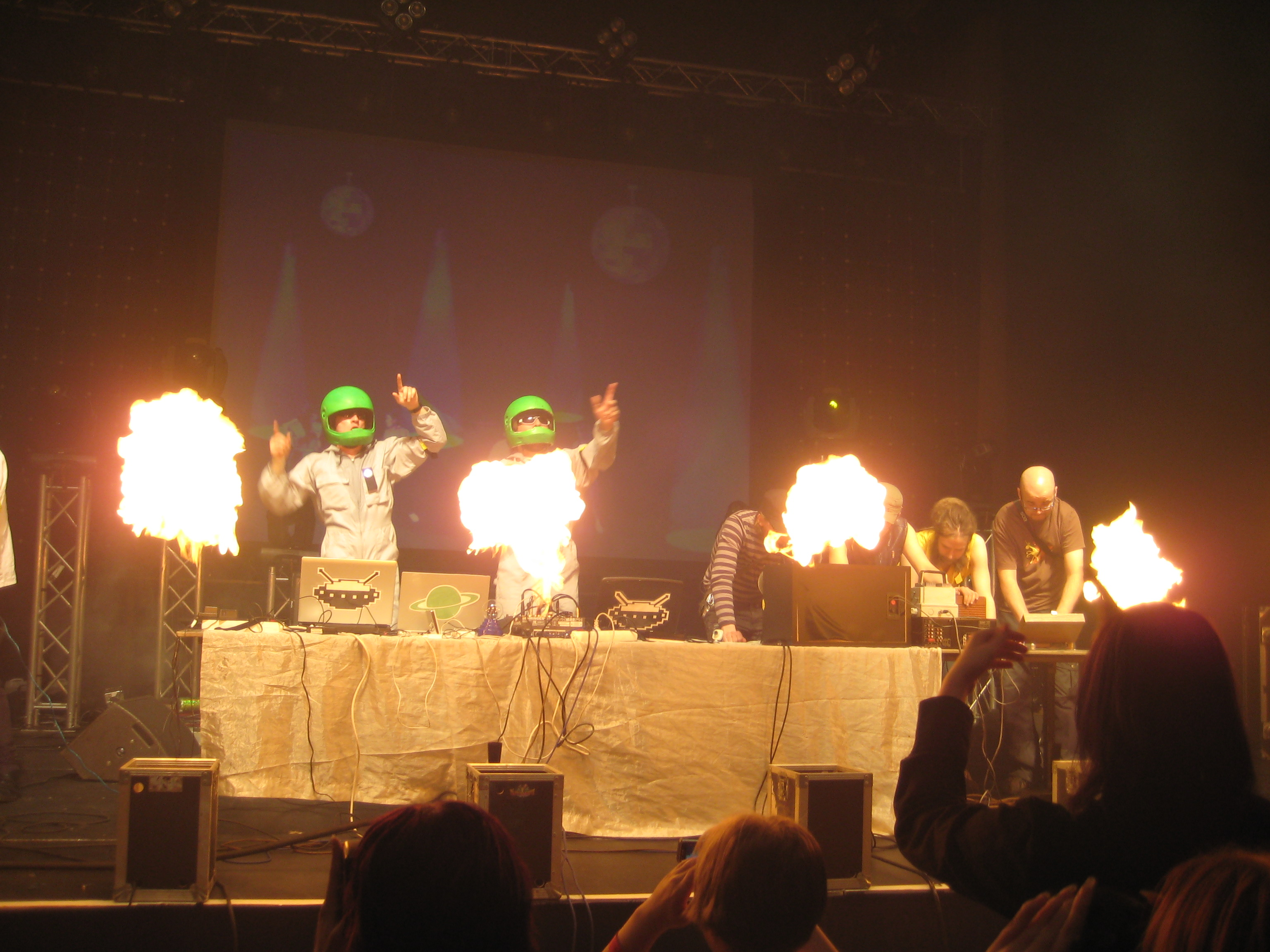 Desert Planet at the Alternative Party 2008 in Helsinki.